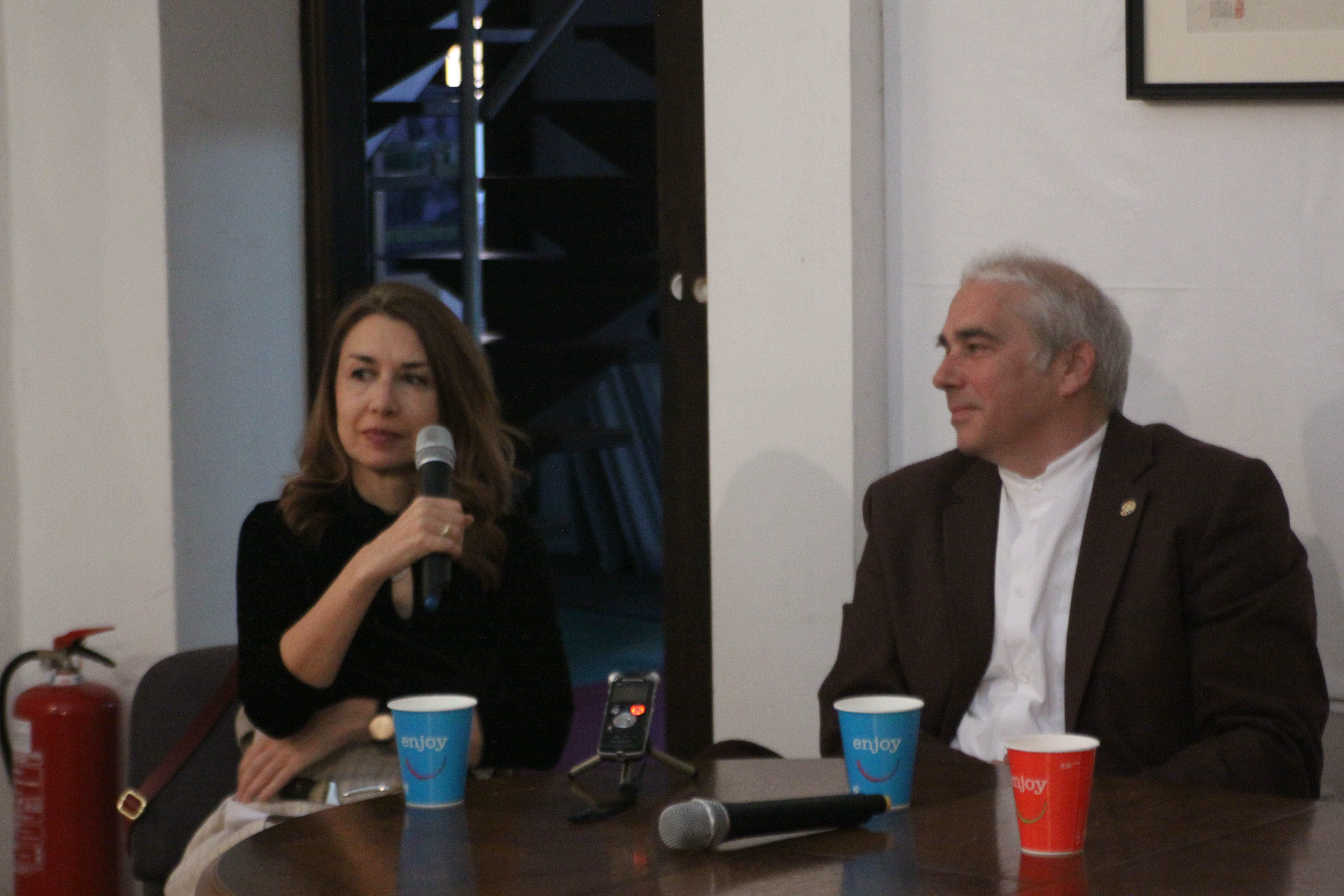 Jasmina Vrbavac and Mileta Prodanović, Slavic and Serbian fantasy cycle, University library, Belgrade, Serbia. Srpski (latinica): Jasmina Vrbavac i Mileta Prodanović, Ciklus "Slovenska i srpska fantastika", Univerzitetska biblioteka, Beograd, Srbija.